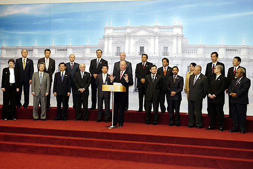 SANTIAGO, CHILE. Proclamation of the declaration "United Community is our Future".